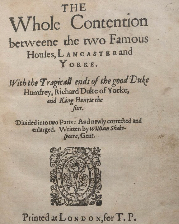 Title Page of "The Whole Contention of the Two Famous Houses of Lancaster and Yorke" from William Jaggard's False Folio (1619)